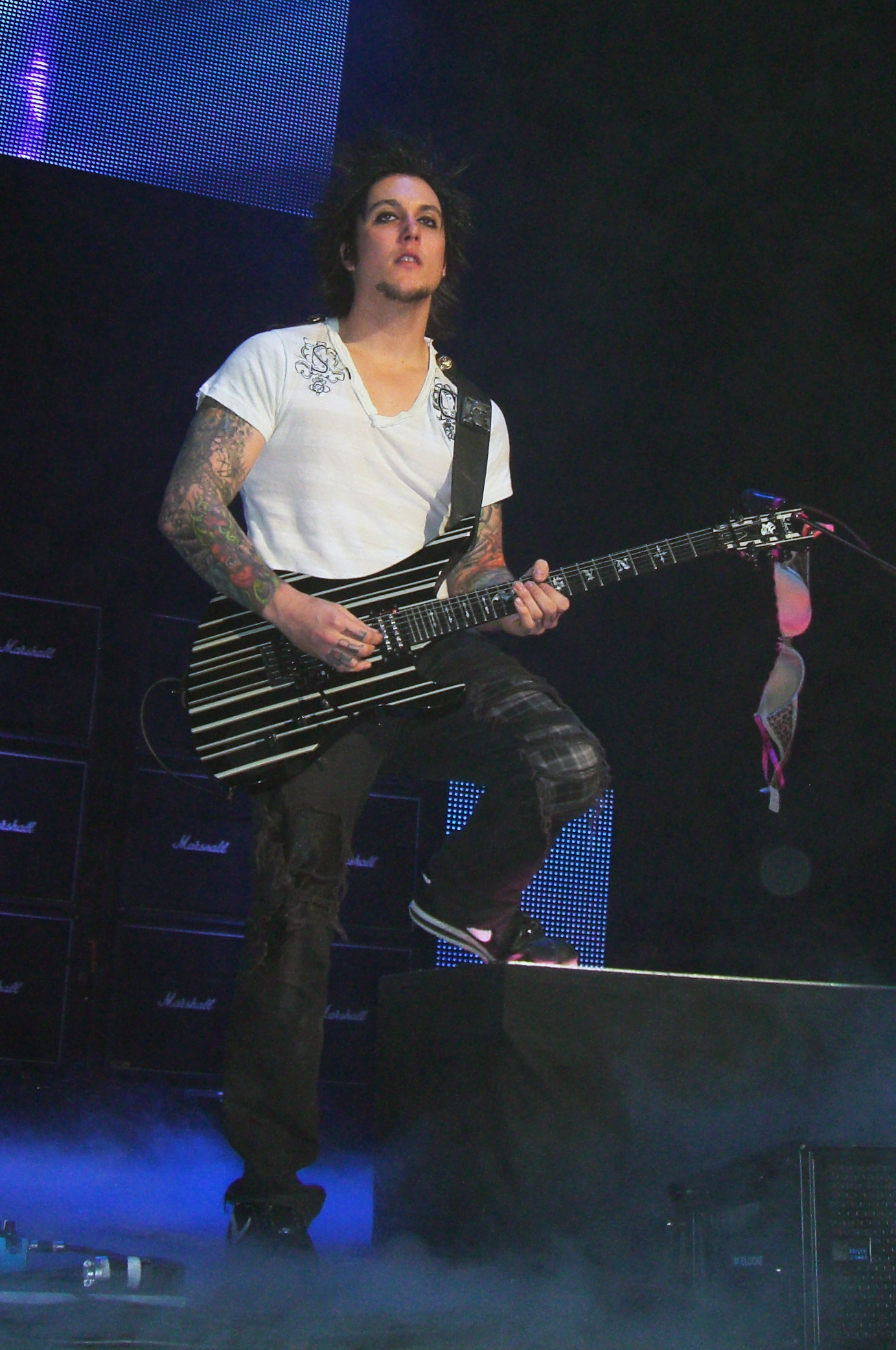 Synyster Gates live in Pittsburgh 2-25-09